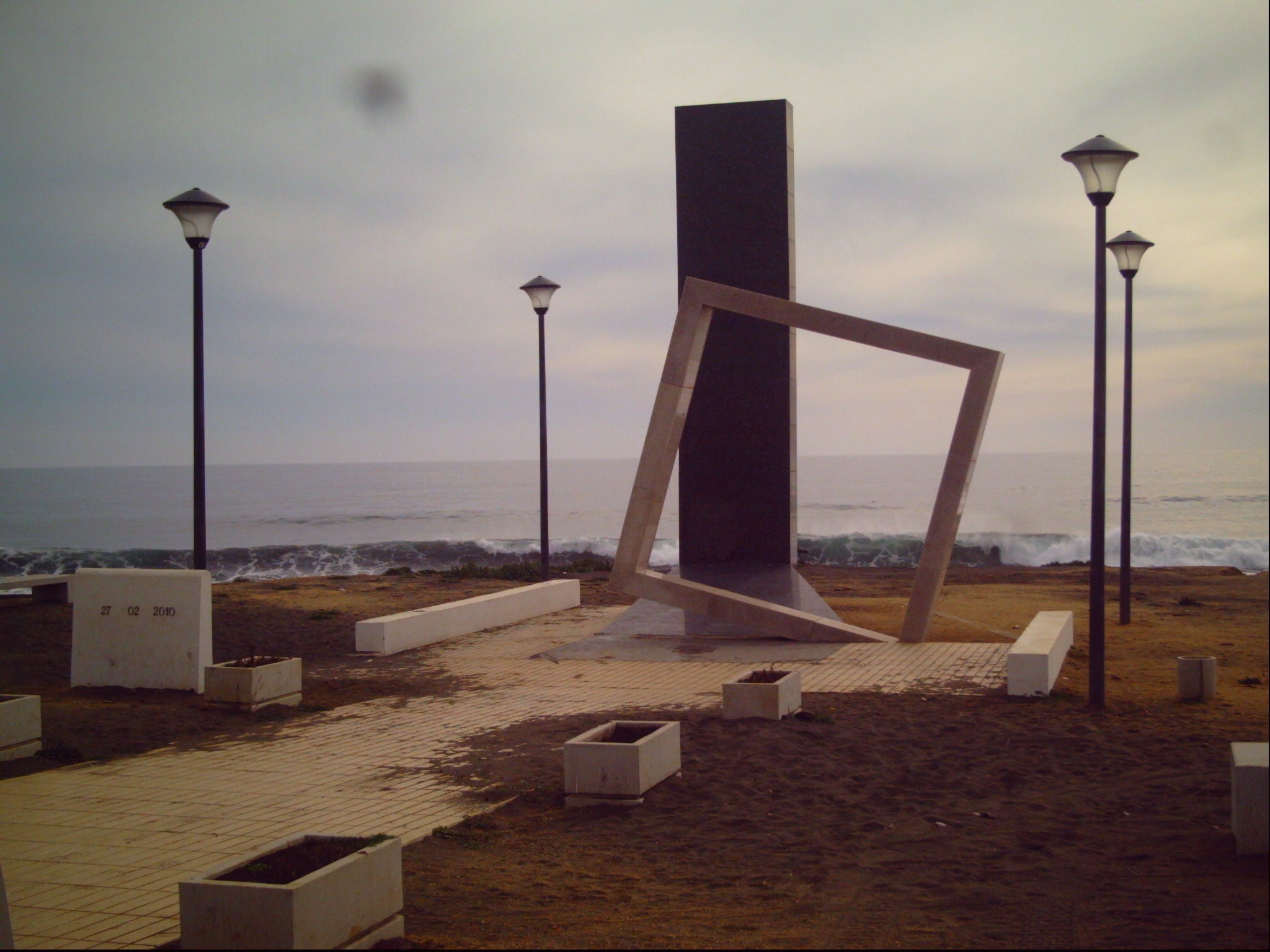 Tsunami 2010 Memorial in Pelluhue (Chile)